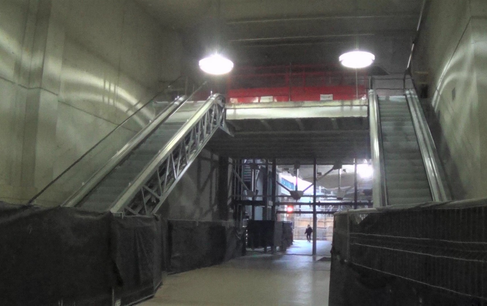 PATH escalators being installed at Scotiabank Arena in 2019